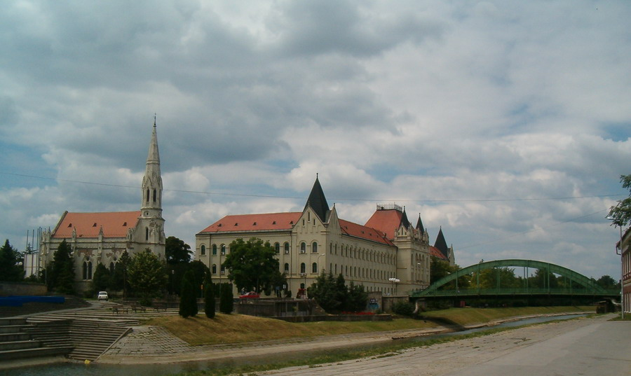 Court House surrounding, June 2005